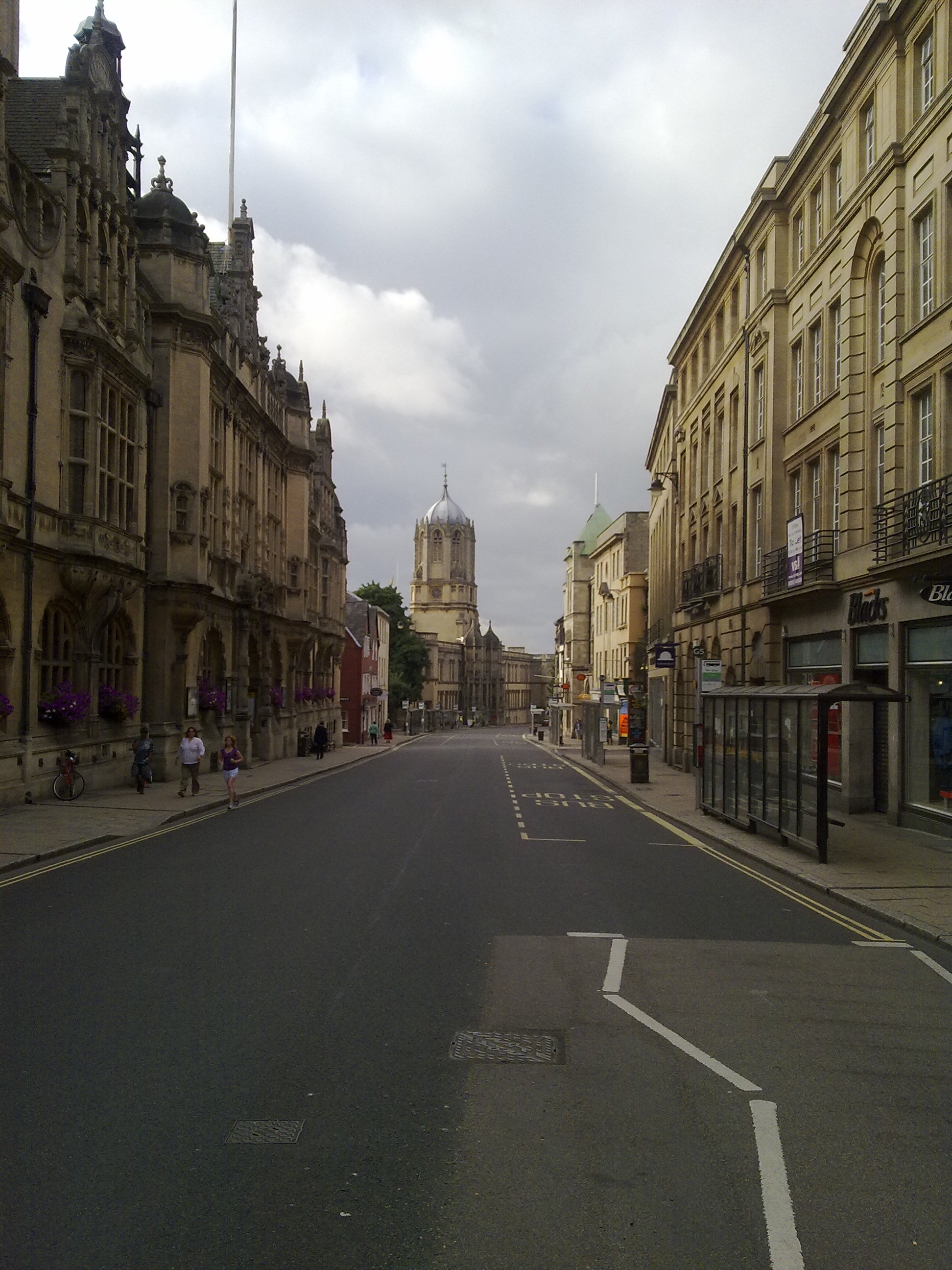 St Aldate's Street, Oxford, looking south towards towards Tom Tower.